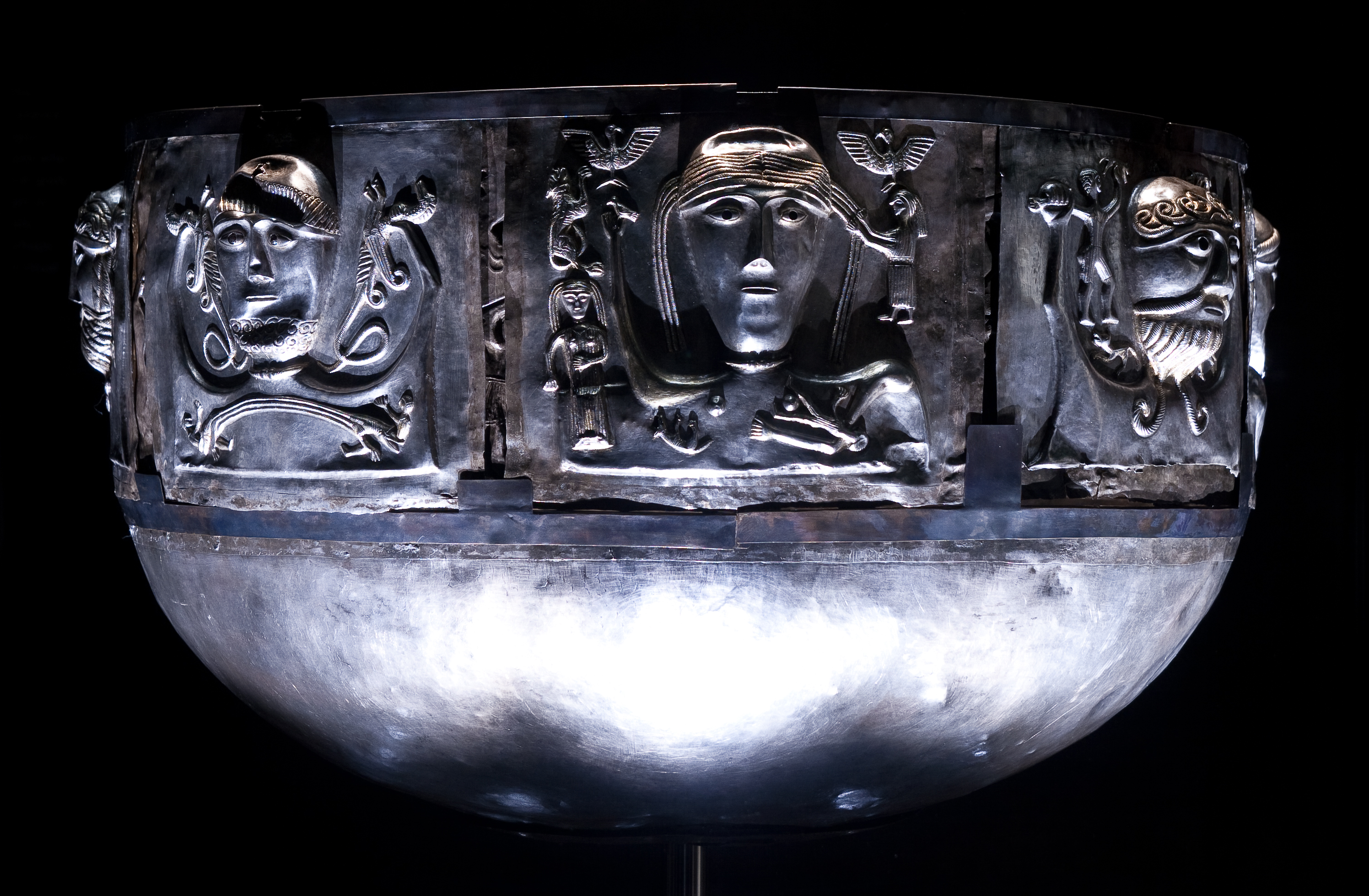 The Gundestrup cauldron is a richly-decorated silver vessel, thought to date to the 1st century BC, placing it into the late La Tène period. It was found in 1891 in a peat bog near the hamlet of Gundestrup, in the Aars parish in Himmerland, Denmark(Gundestrup_cauldron)